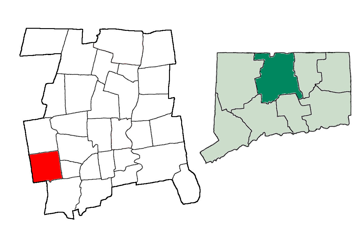 Created by editing Hartford Hartford.png by SoundGod3 which was created using data from the US Census Bureau.